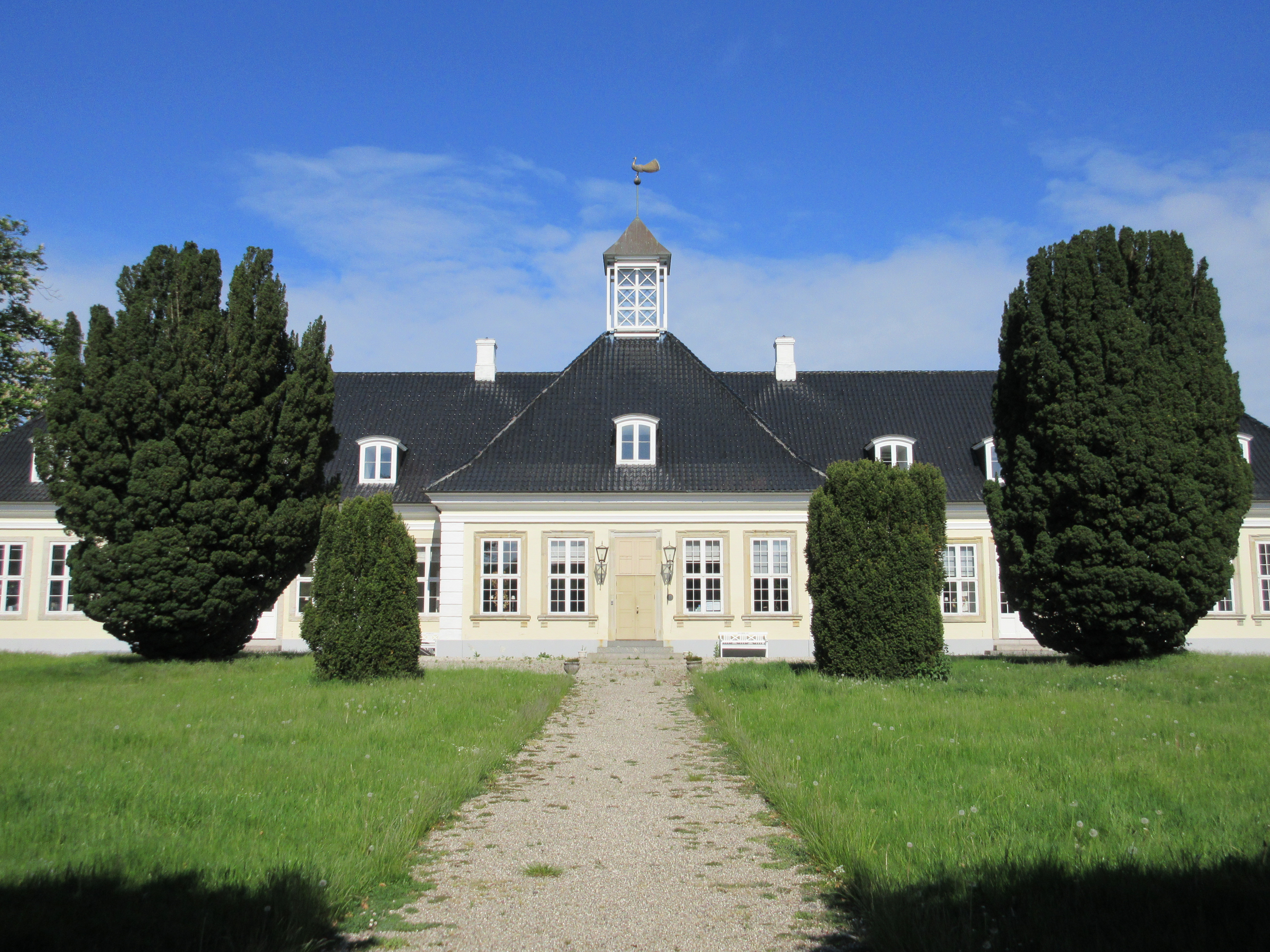 Sophienberg in Hørsholm, Denmark